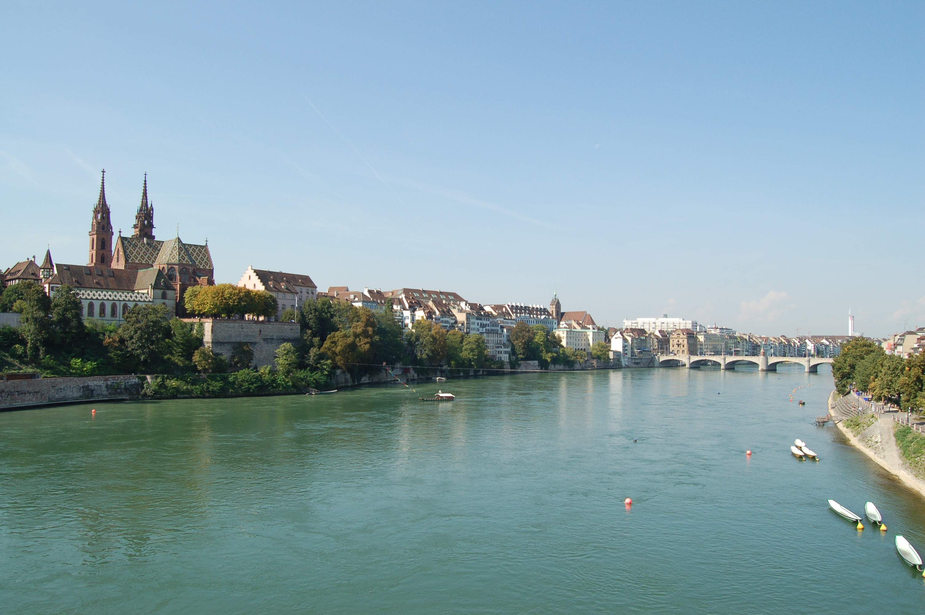 Basle, Switzerland